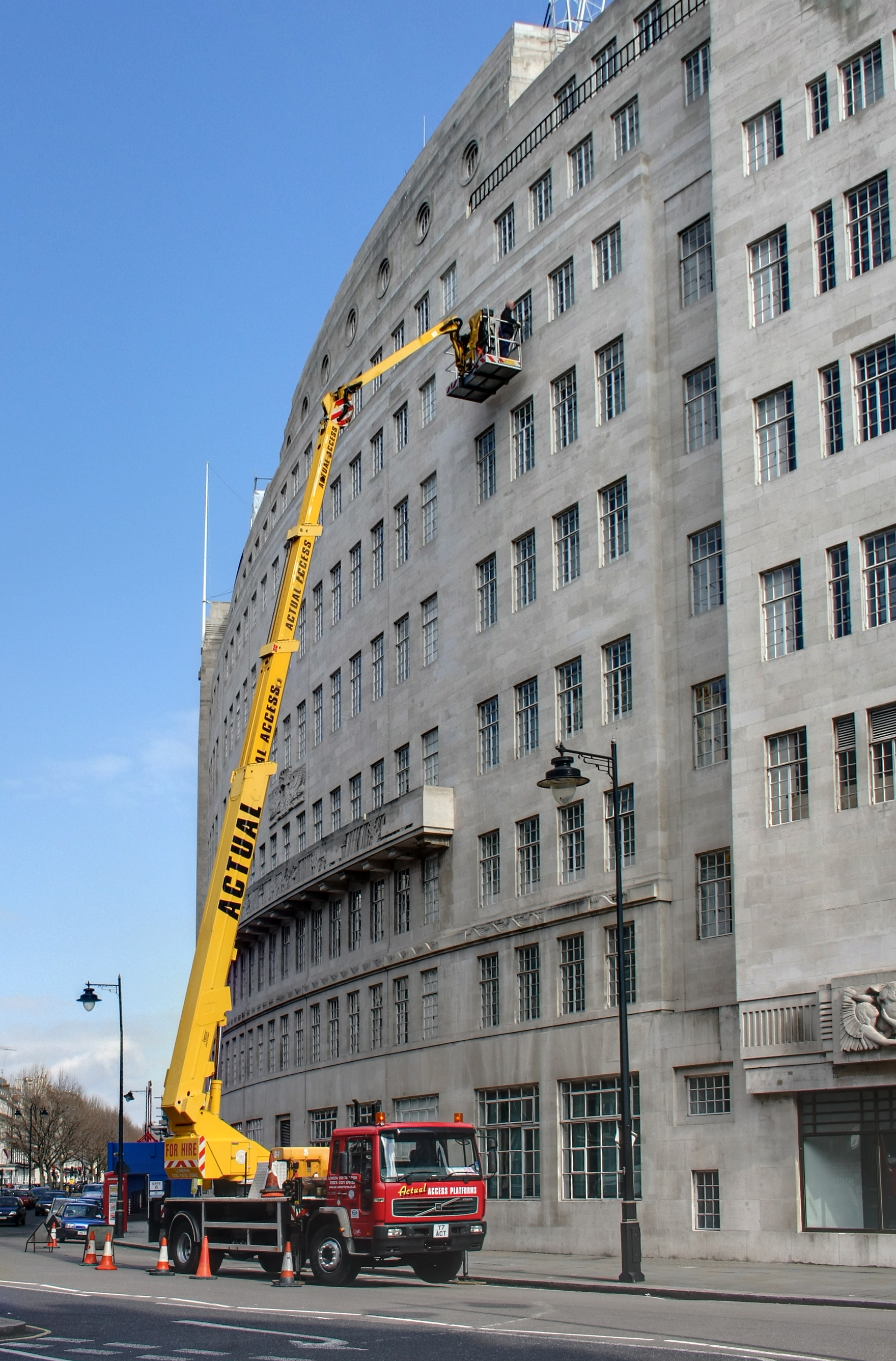 Bucket truck in central London.